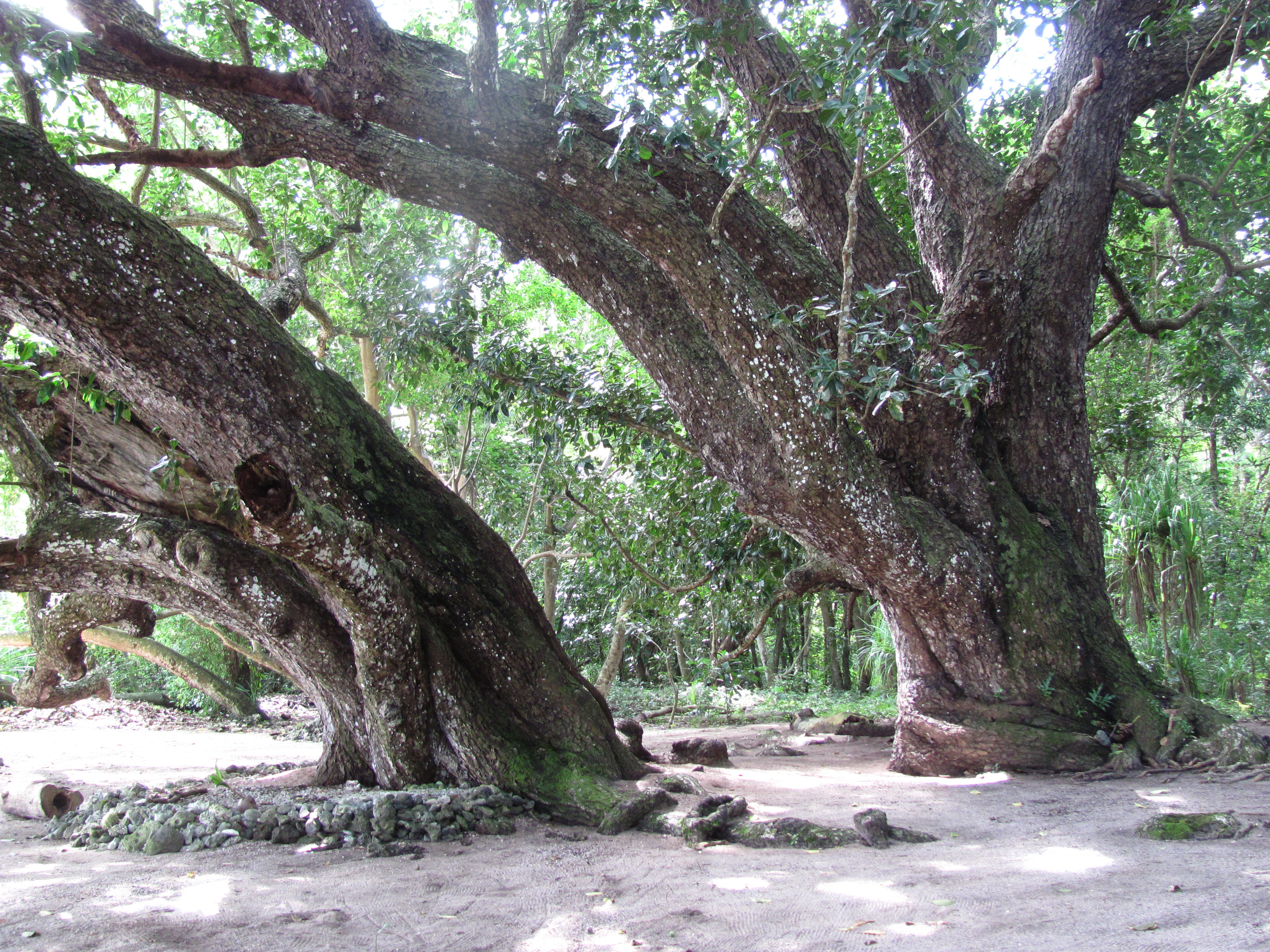 Sacred trees at Mangaas (Manga'asi), Efate Island, Vanuatu